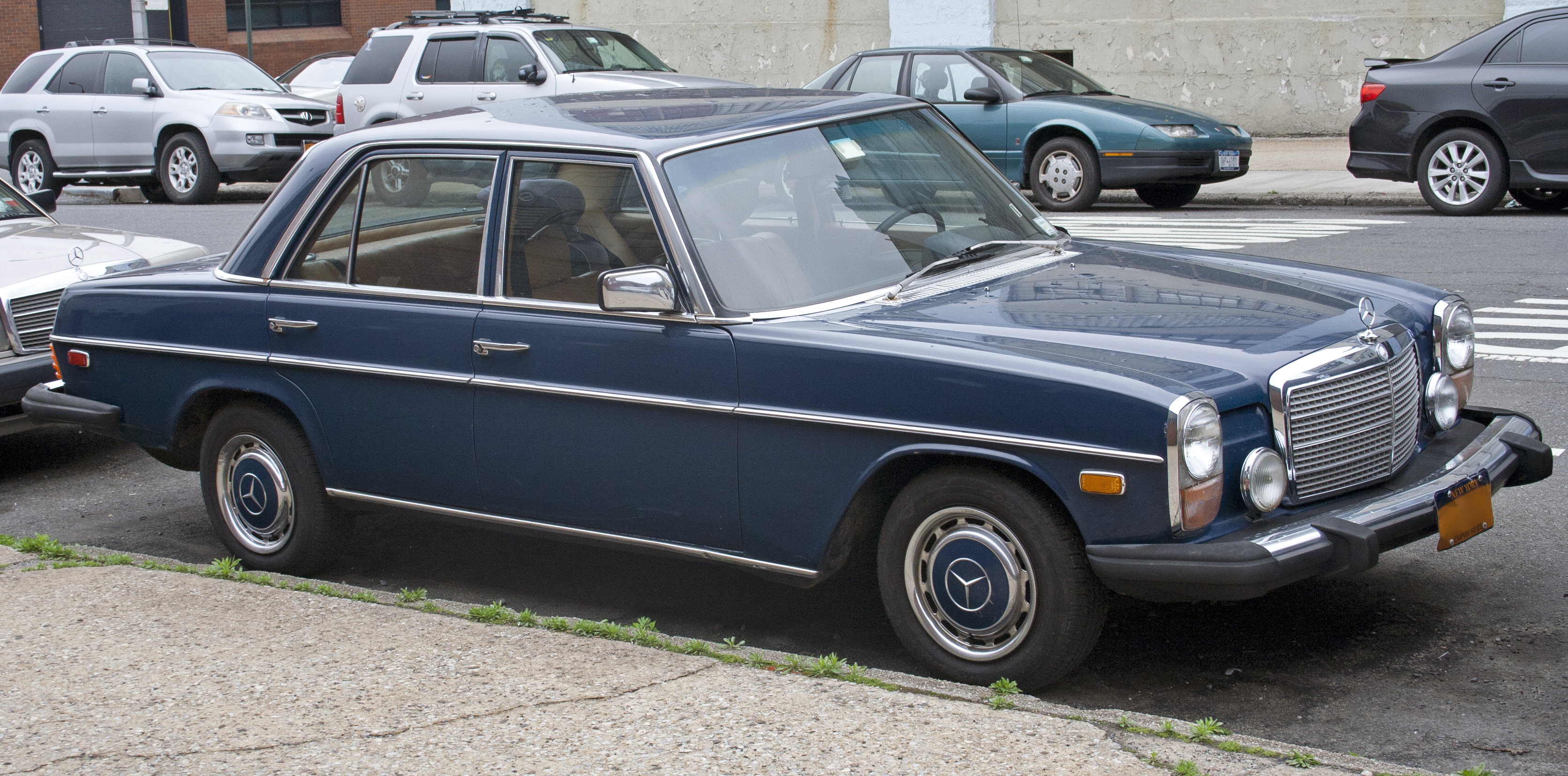 1975 Mercedes-Benz 280 in US-spec - quite rare, as most of these cars got diesels in the US.